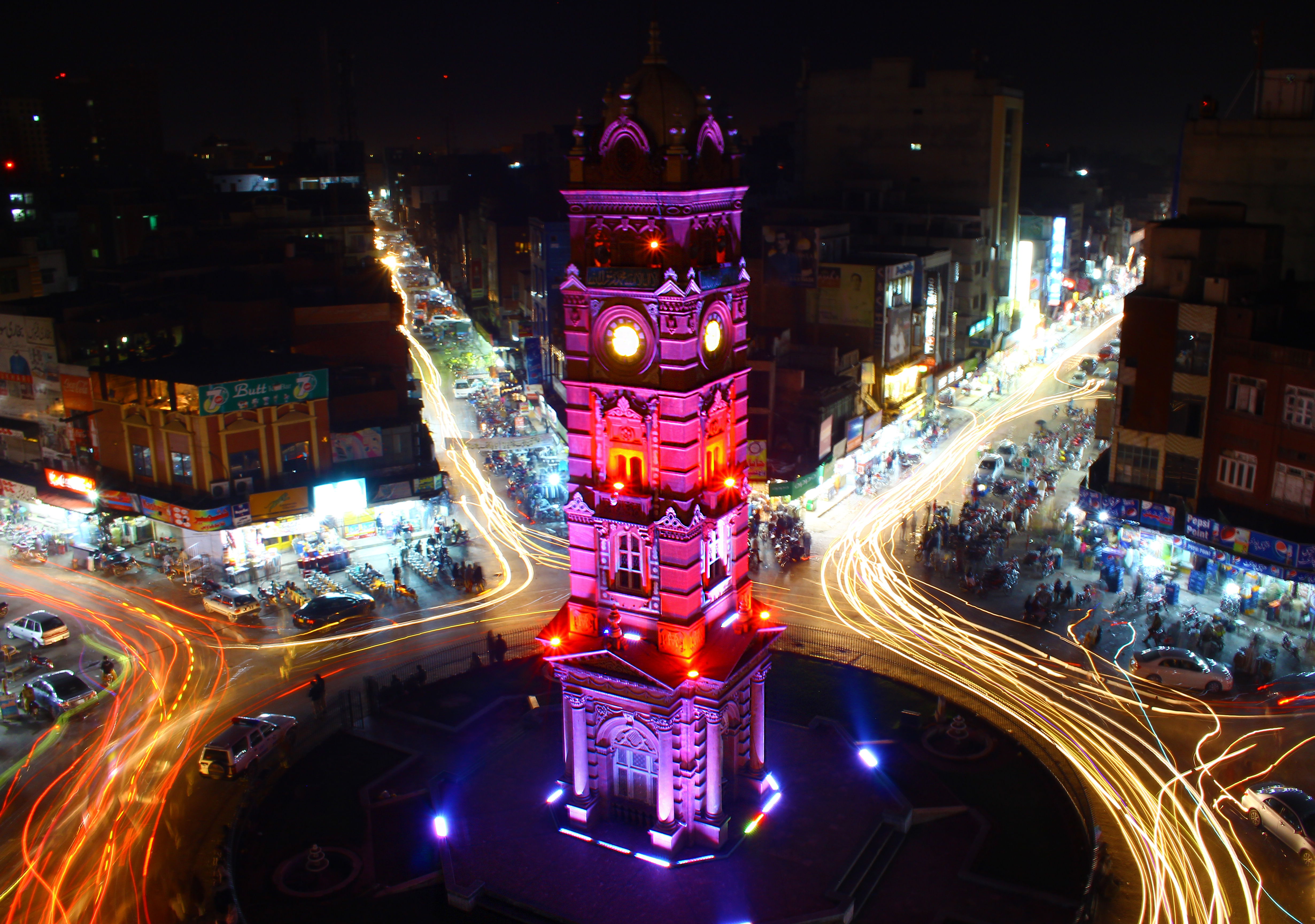 Clock Tower Faisalabad is one of the oldest monuments. It was build in British Raj. The foundation of majestic Clock Tower was laid on 14 November 1903 by the British lieutenant governor of Punjab Sir Charles Riwaz and the biggest local landlord belonging to the Mian Family of Abdullahpur. The fund was collected at a rate of Rs. 18 per square of land. The fund thus raised was handed over to the Municipal Committee which undertook to complete the project. The locals refer to it as "Ghanta Ghar" (گھنٹہ گھر in Urdu) which translates into Hour House in English. This is a photo of a monument in Pakistan identified as the PB-U-15